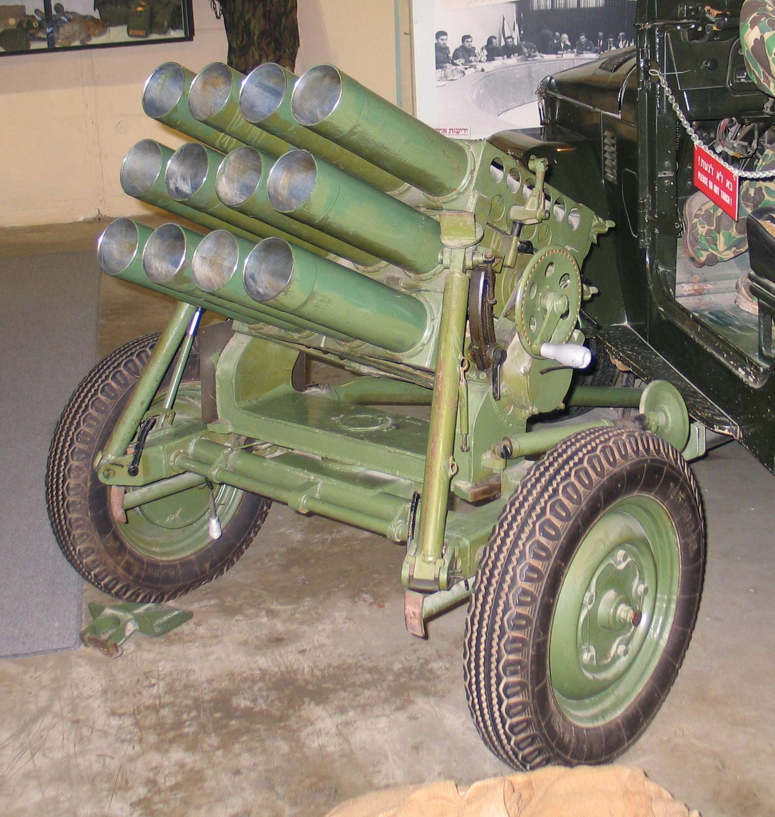 107mm type 63 multiple rocket launcher in Batey ha-Osef Museum, Tel Aviv, Israel.